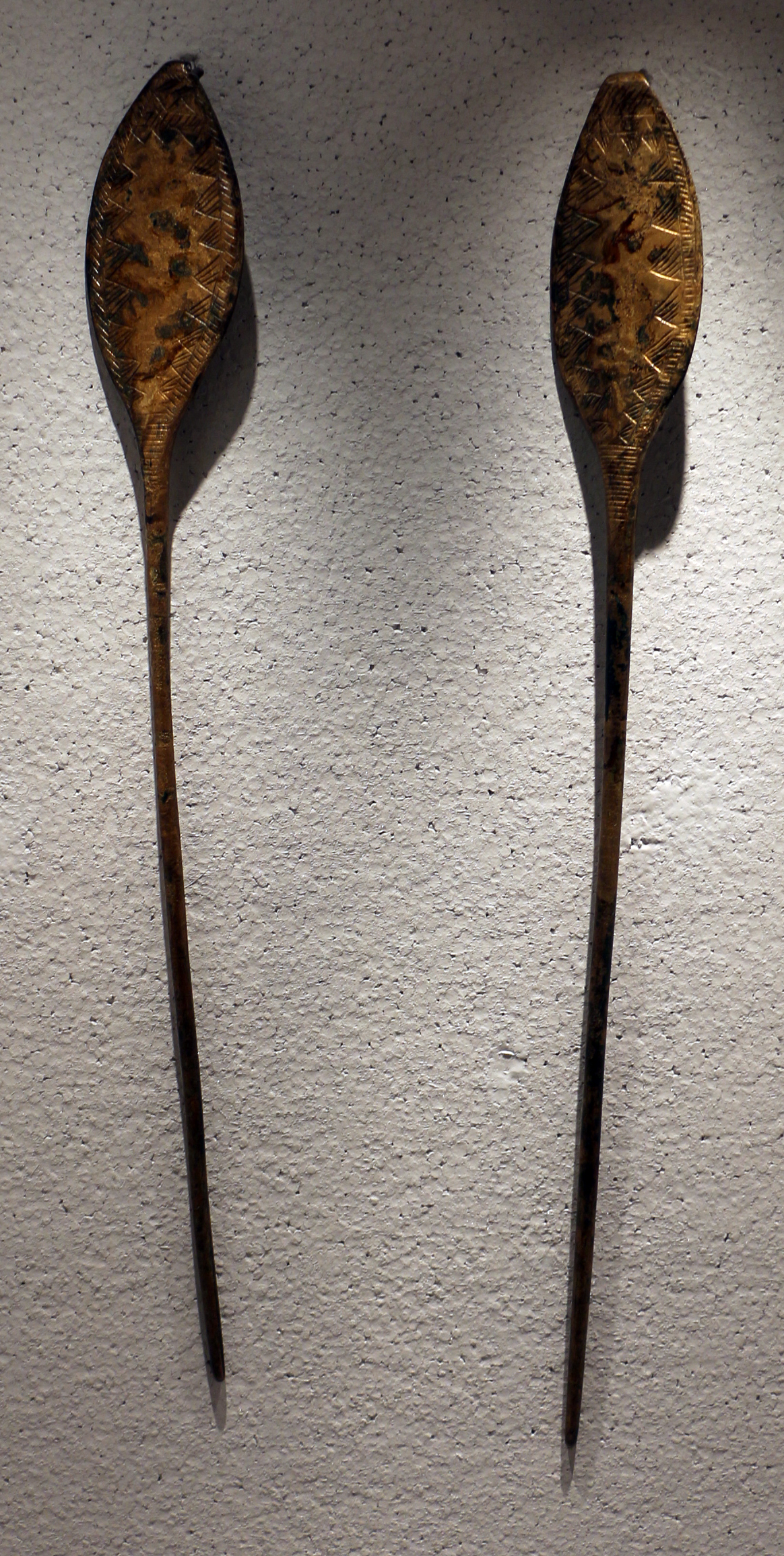 Prehistory in the Buonconsiglio Castle